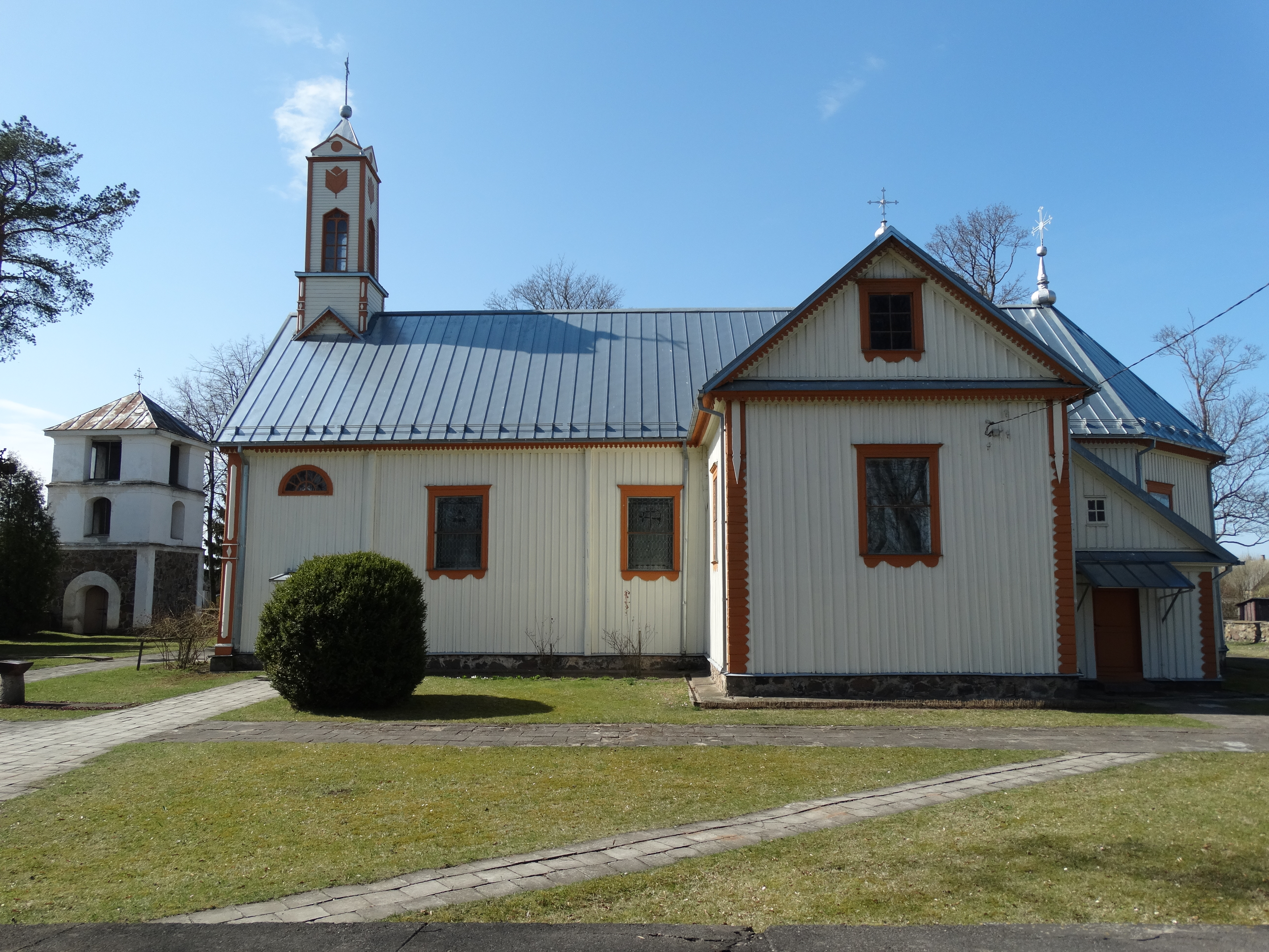 Church in Vadokliai, Panevėžys District, Lithuania